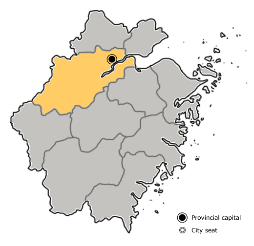 The sub-provincial city of Hangzhou is highlighted on this map of Zhejiang province, People's Republic of China.